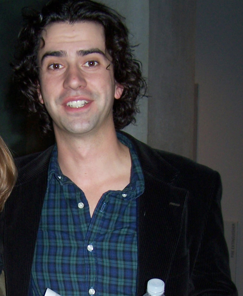 American actor Hamish Linklater after "the busy world is hushed" at the skirball in LA on 2/10/07.